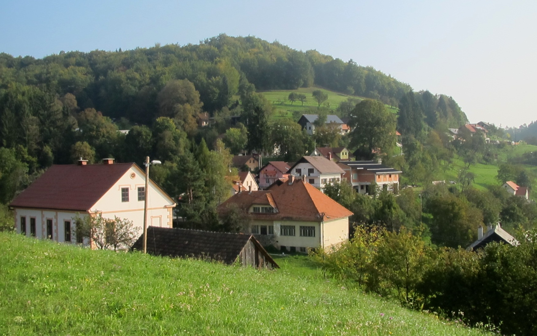 Javor, City Municipality of Ljubljana, Slovenia.